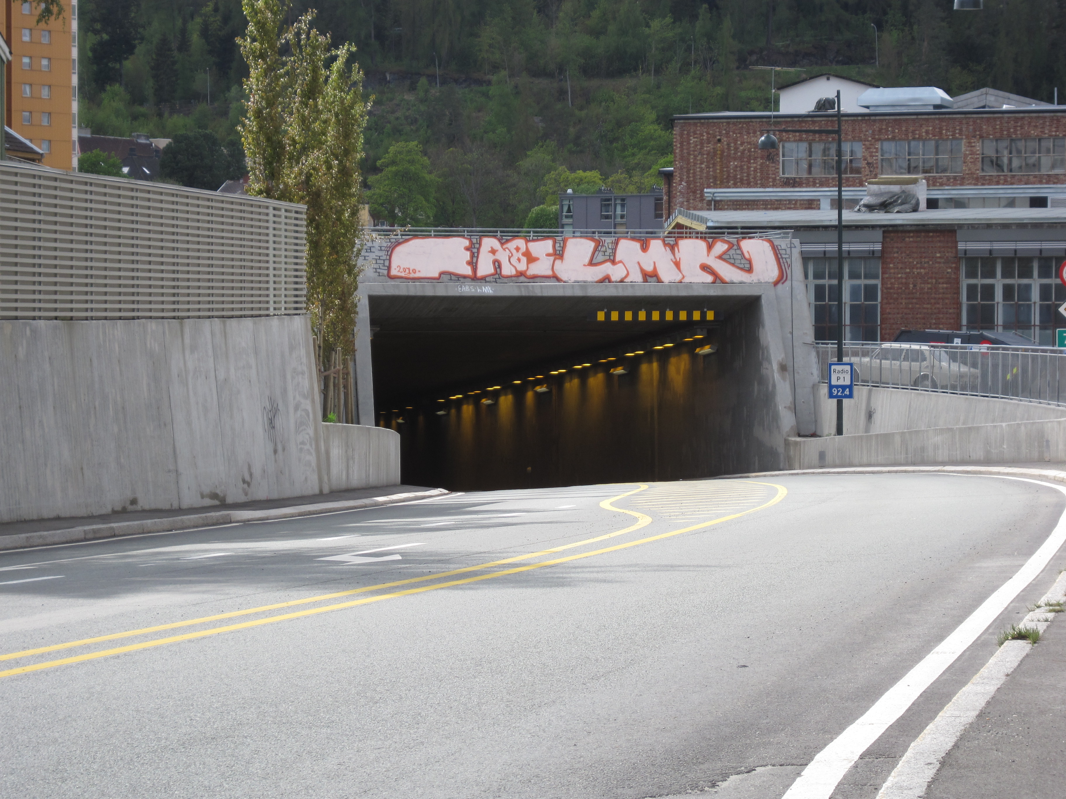 Entrance to Ilsvik tunnel in Trondheim, Norway.